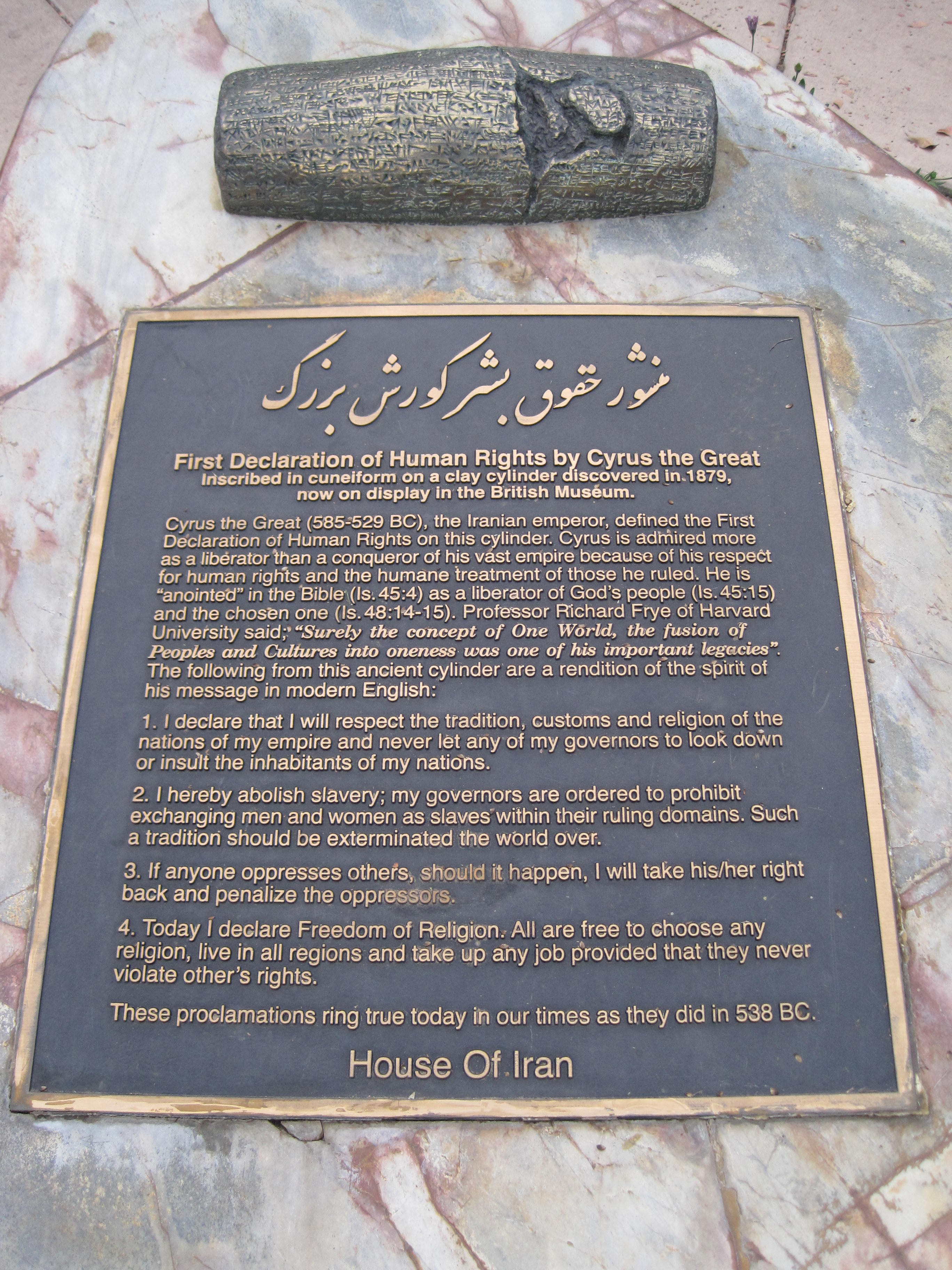 A plaque at the House of Pacific Relations - International Cottages at Balboa Park in San Diego, California. It is stated to be a transcript of a human rights declaration by Cyrus the Great. However, the text is not accurate, and contains elements not in the original Cyrus Cylinder, such as a general abolition of slavery.[1]